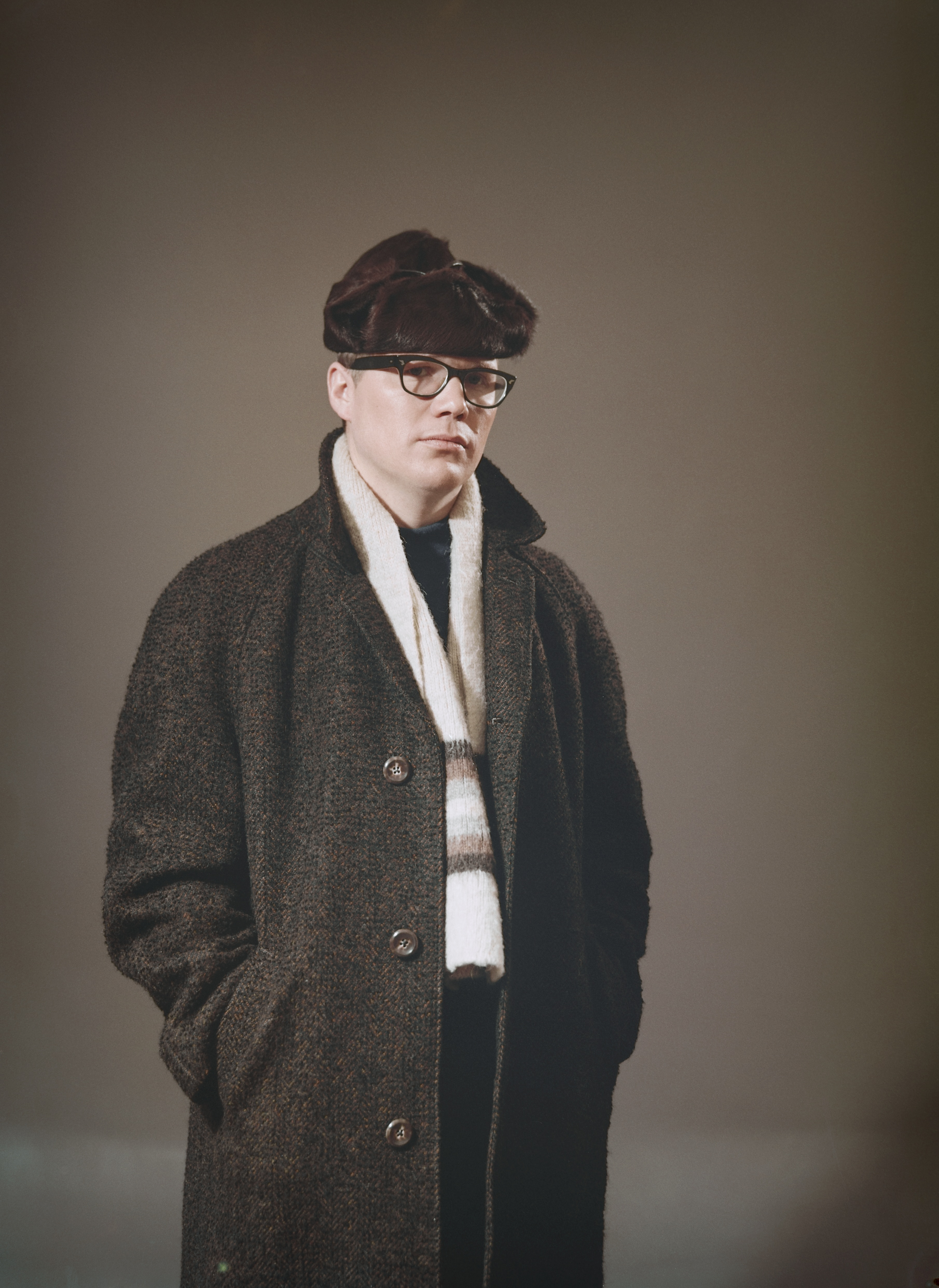 Photograph of the Finnish journalist and politician Ralf Friberg (1936–).